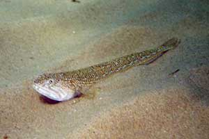 Picture of Synodus saurus